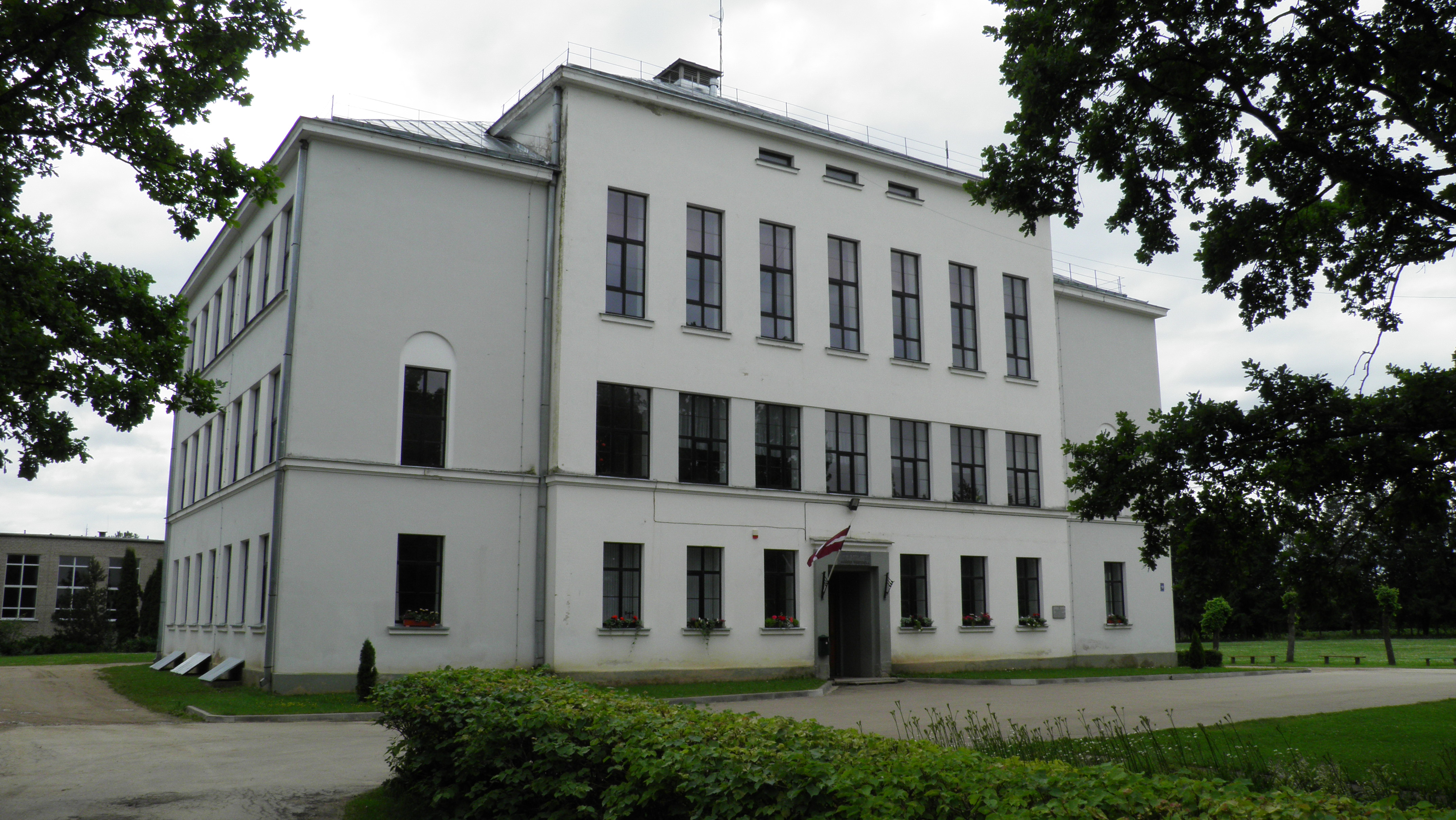 school